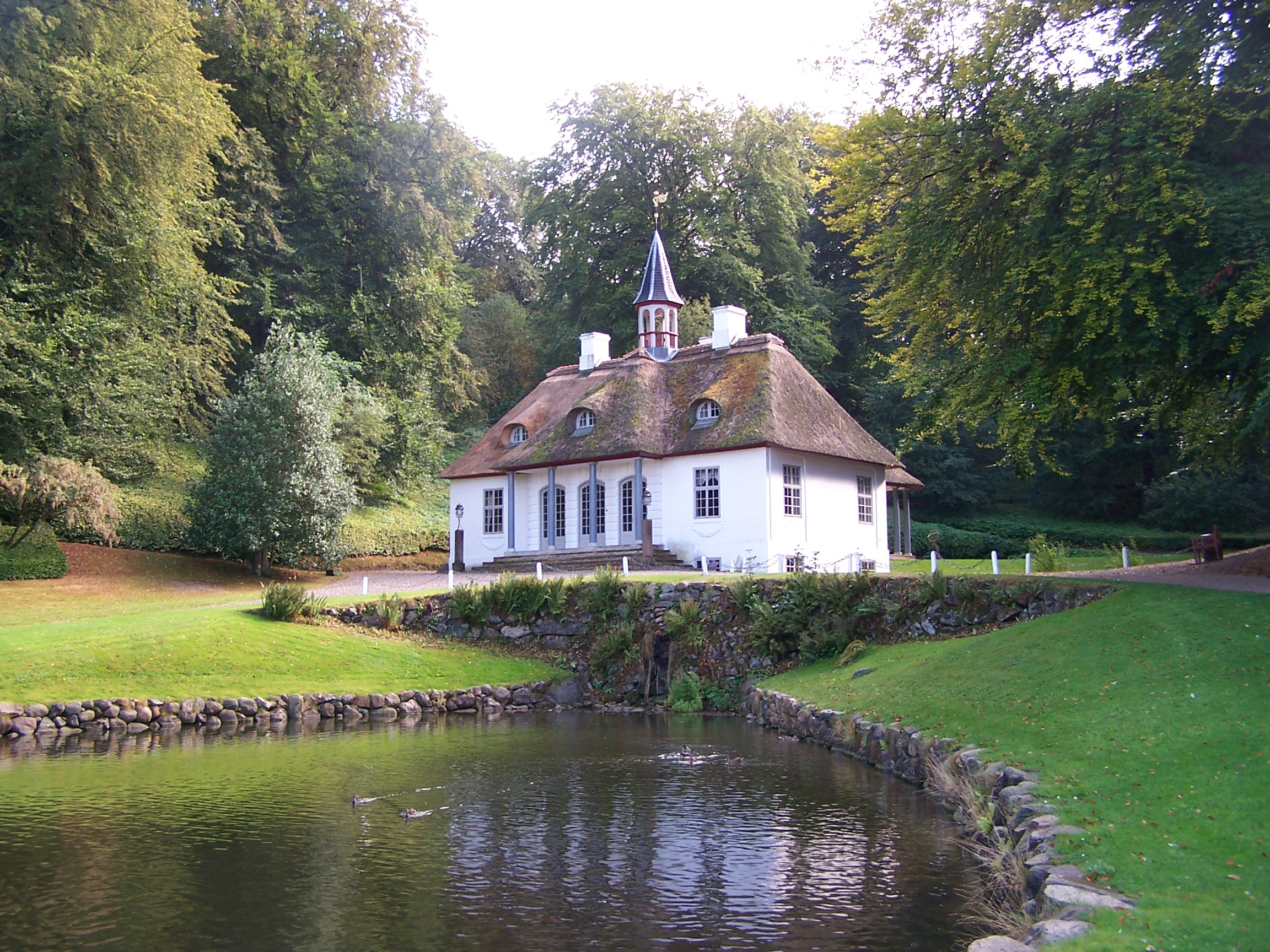 gardenhouse in liselund park